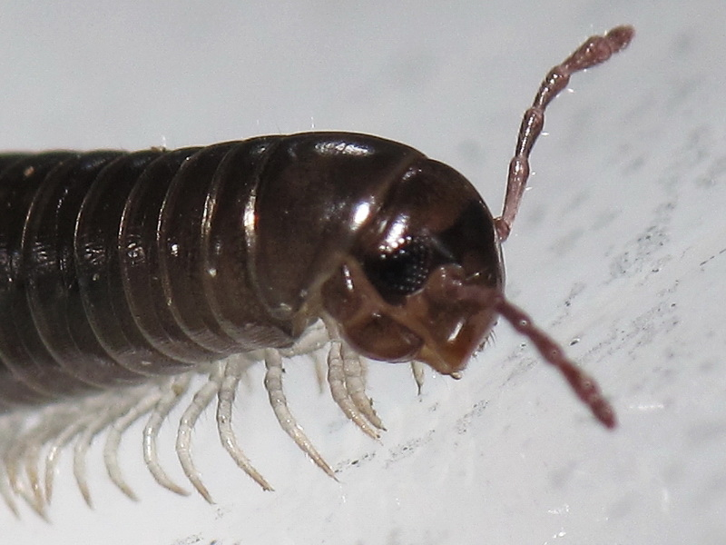 A millipede in Santiago de Compostela, Galicia, Spain